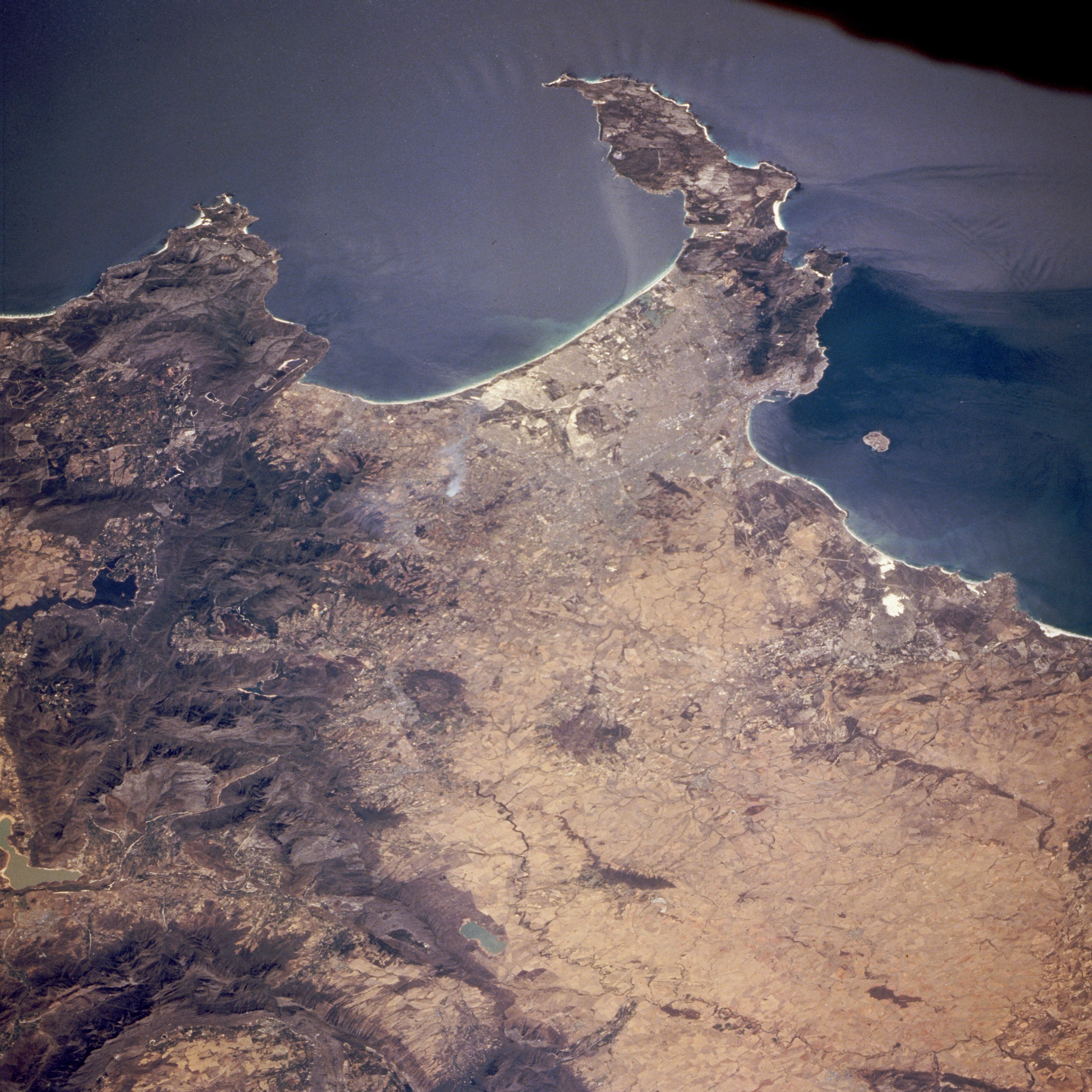 Cape Town, False Bay (top) and Table Bay (right), South Africa